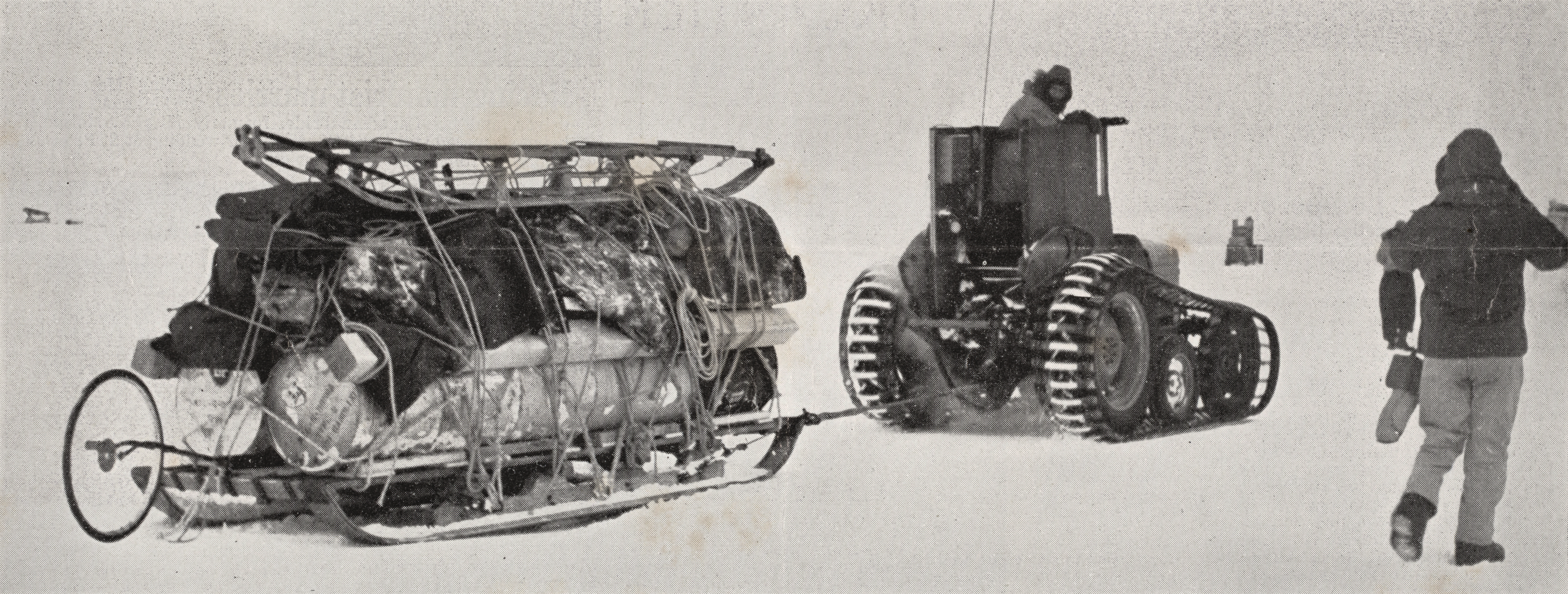 A unit of the New Zealand tractor train, with sledge in tow, setting out across the Ross Ice Shelf, beginning the journey to the South Polar plateau. From a collection of photographs depicting the departure from Scott Base of the New Zealand tractor train of the Commonwealth Trans-Antarctic Expedition on its depot-laying journey toward the South Pole, published in:"South Polar journey begins". The Weekly News (Auckland, New Zealand: Wilson and Horton): p. 23. 23 October 1957. OCLC 29121953. Photograph taken 1957 by an unidentified staff photographer for The Weekly News and The New Zealand Herald. Original page physical description: Photolithographs on page, 435 x 310 mm. This version has been cropped, and has had brightness/contrast adjustments.